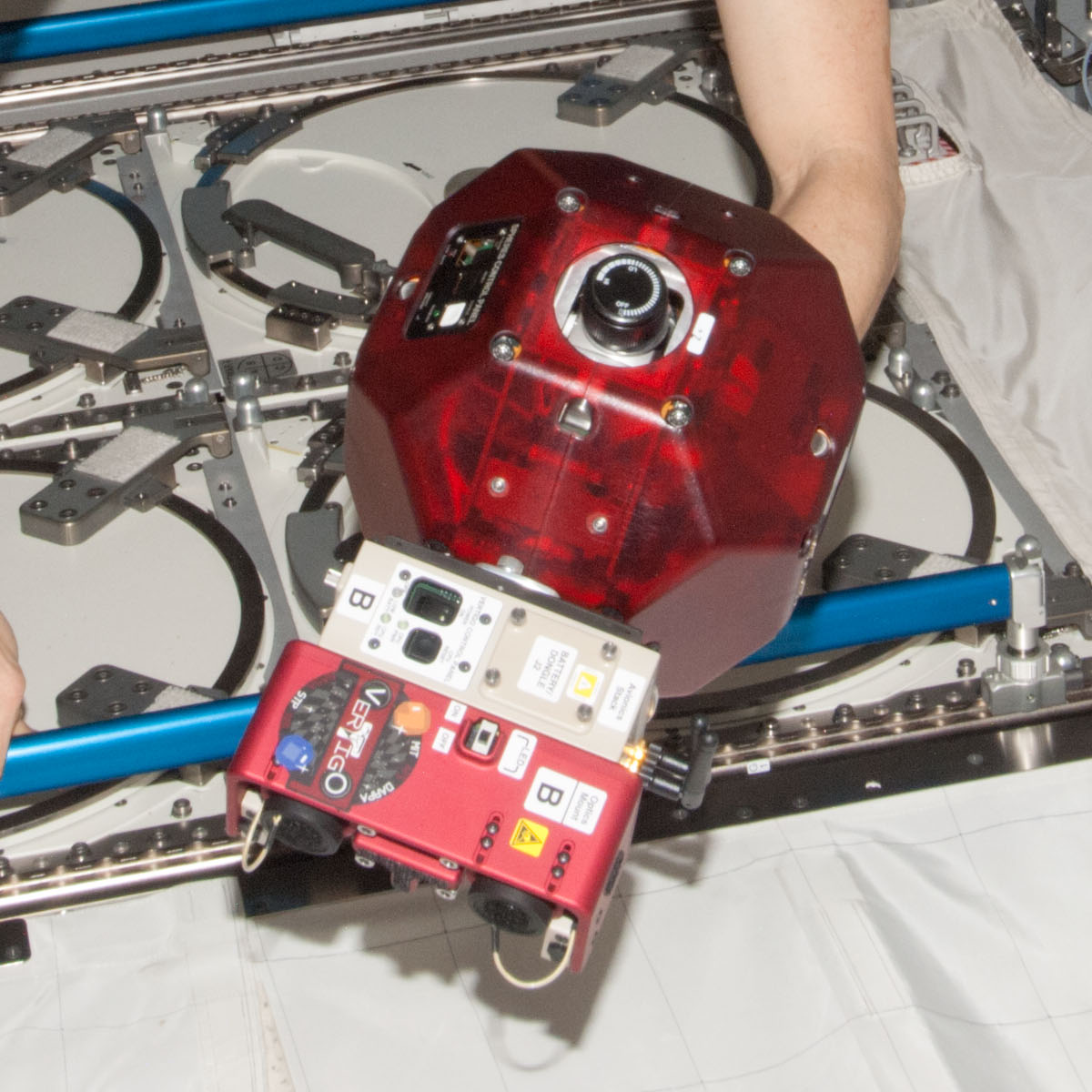 Inside the Japan Aerospace Exploration Agency's (JAXA) Kibo lab on the Earth-orbiting Internatational Space Station, NASA astronaut Tom Marshburn conducts a session of the ongoing SPHERES-VERTIGO investigation. SPHERES stands for Synchronized Position Hold, Engage, Reorient Experimental Satellites. Each satellite is an 18-sided polyhedron that is 0.2 meter in diameter and weighs 3.5 kilograms. The prism-shaped device (called Goggles) which is hooked up to the red or forward-most polyhedron in the picture is called Visual Estimation and Relative Tracking for Inspection of Generic Objects (VERTIGO).